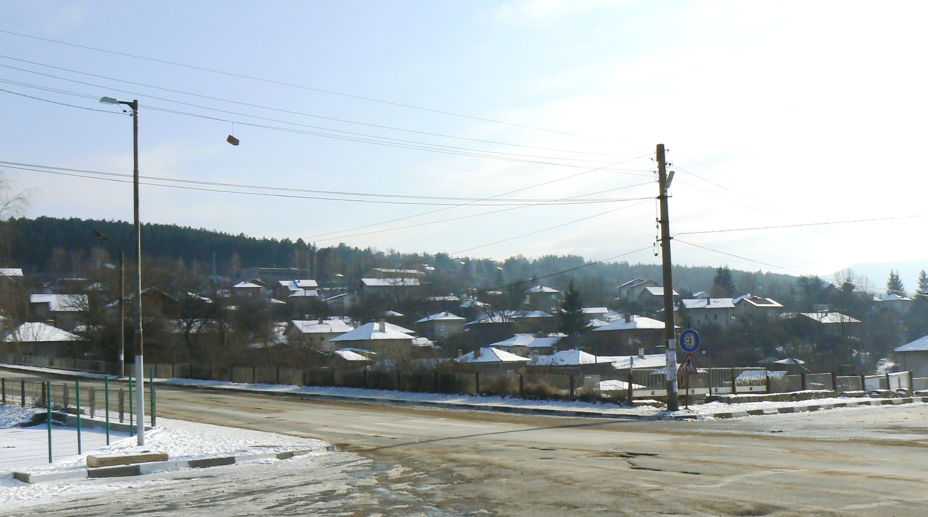 View from village Dolno Kamartsi, Bulgaria